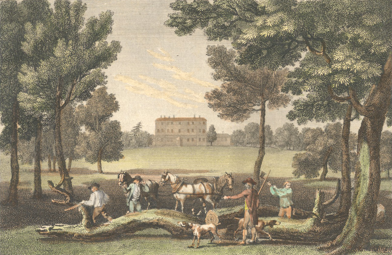 Caversham Park, Caversham, Reading. The house is in the background, and in the foreground are horses and dogs, with men chopping and sawing at a tree-trunk. 1790-1799 : print, entitled "Plate 29. Caversham-Park, Oxfordshire," drawn by Dayes and engraved by W. and J. Walker.